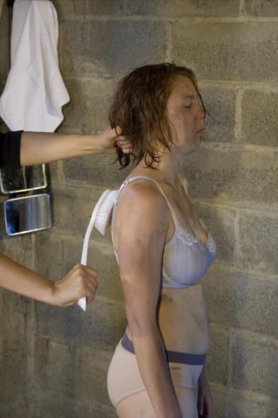 The washing of the very dirty human body is not easy.